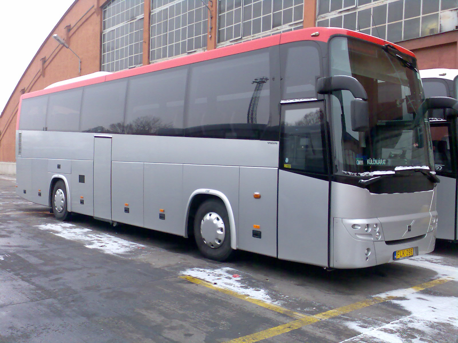 Volvo 9900 bus in Budapest, Hungary